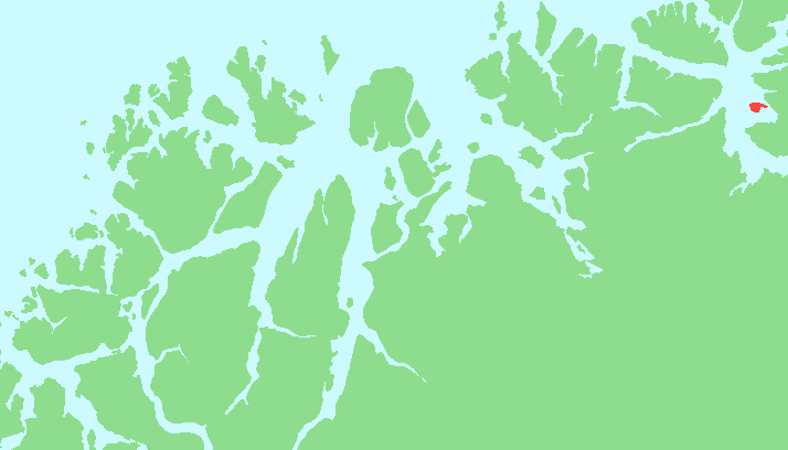 Locator map of Årøya, Finnmark, Norway